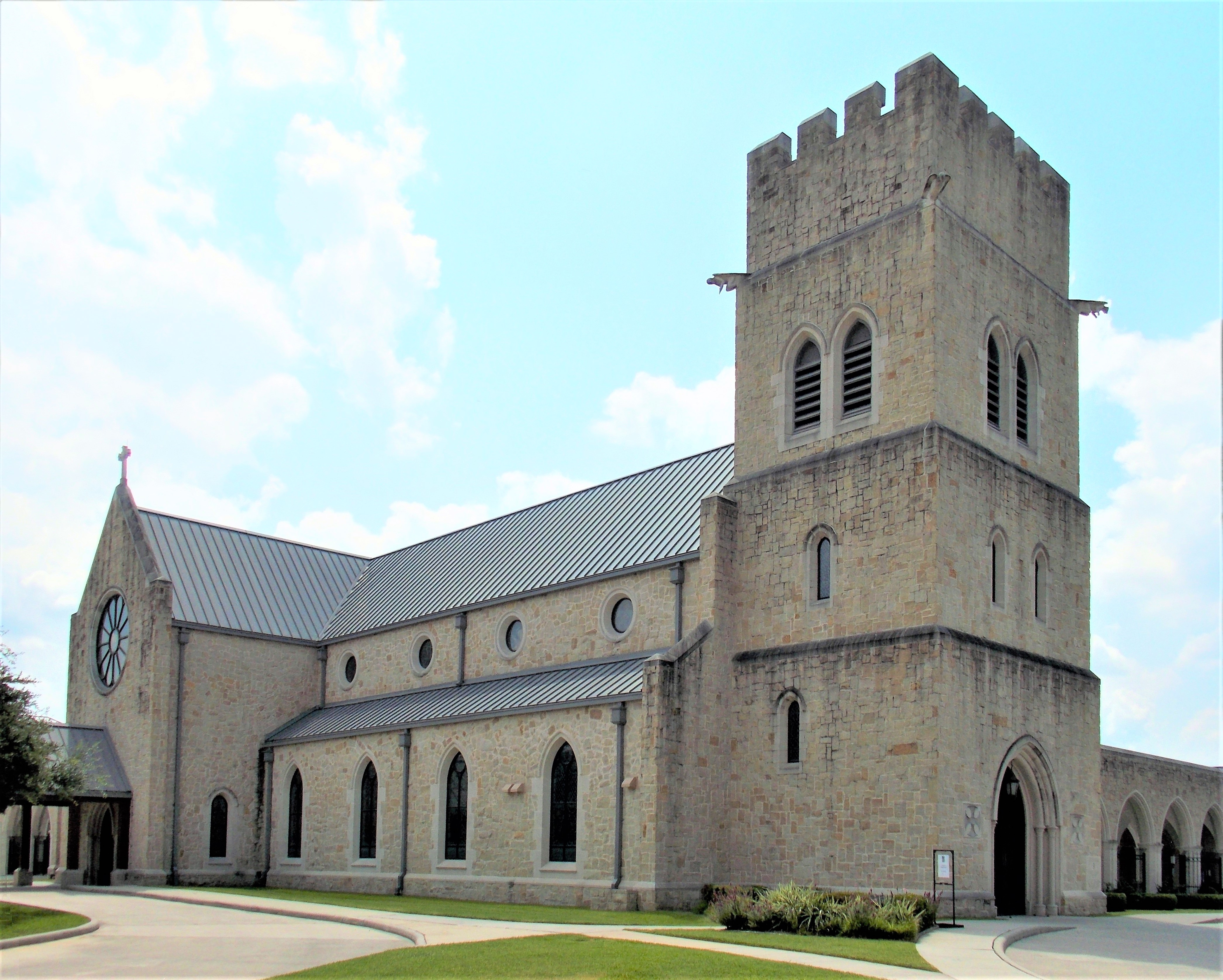 Our Lady of Walsingham, Houston